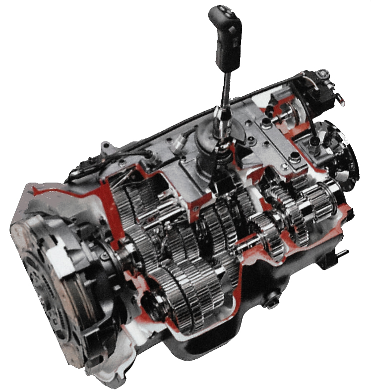 Color hi-lites cut-away view of a commercial motor vehicle non-synchronous transmission from the Meritor "Drivetrain" product line